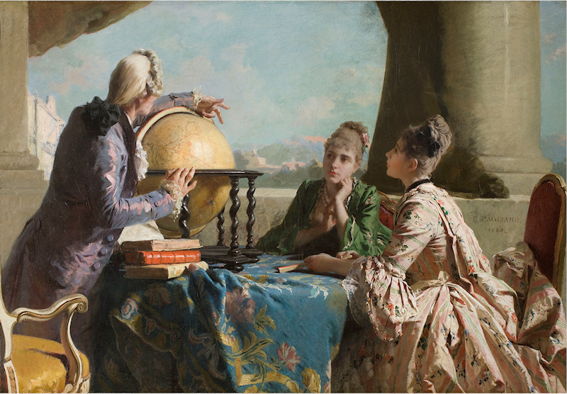 1880 depiction of 18th-century scene -- teaching geography by means of globes. One of the women has a folded-up fan resting loosely in her hands